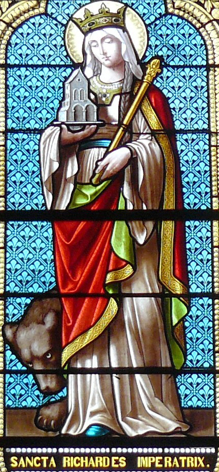 Stained glass with saint Richarde, empress in the Church of Saint Wendelin (cropped version of File:Albé 074.JPG